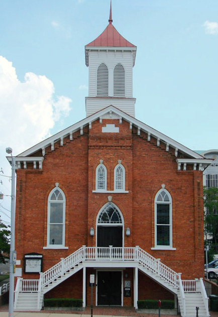 Dexter Avenue Baptist Church in Montgomery, Alabama. Martin Luther King Jr. was the pastor here.